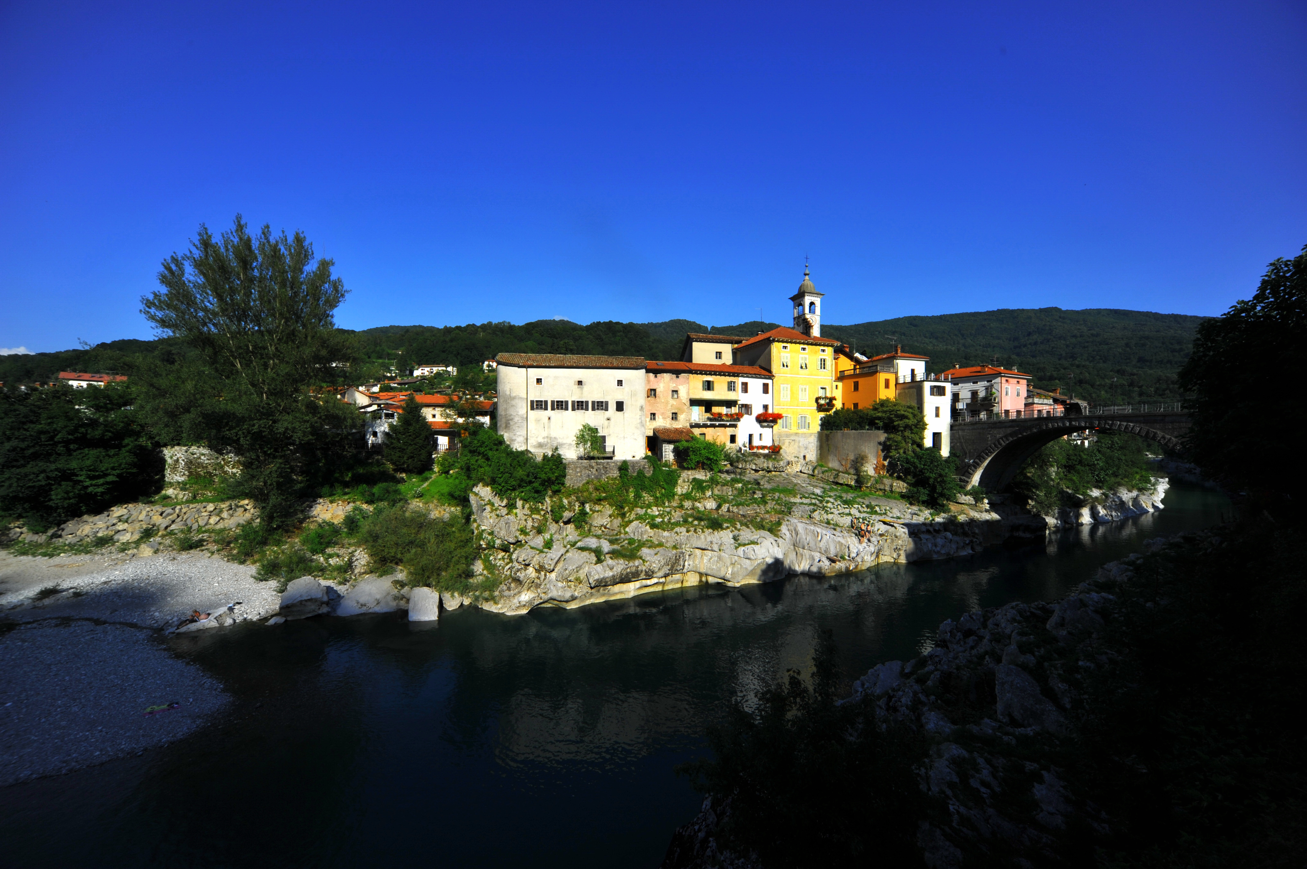 View at Kanal ob Soči with the road bridge across the Isonzo-river, Primorska, Slovenia